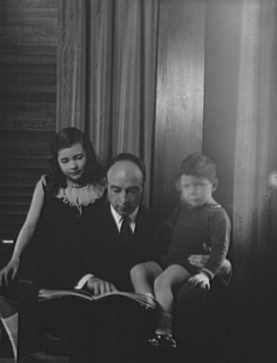 Lovett, Robert, Mr., and children, portrait photograph.